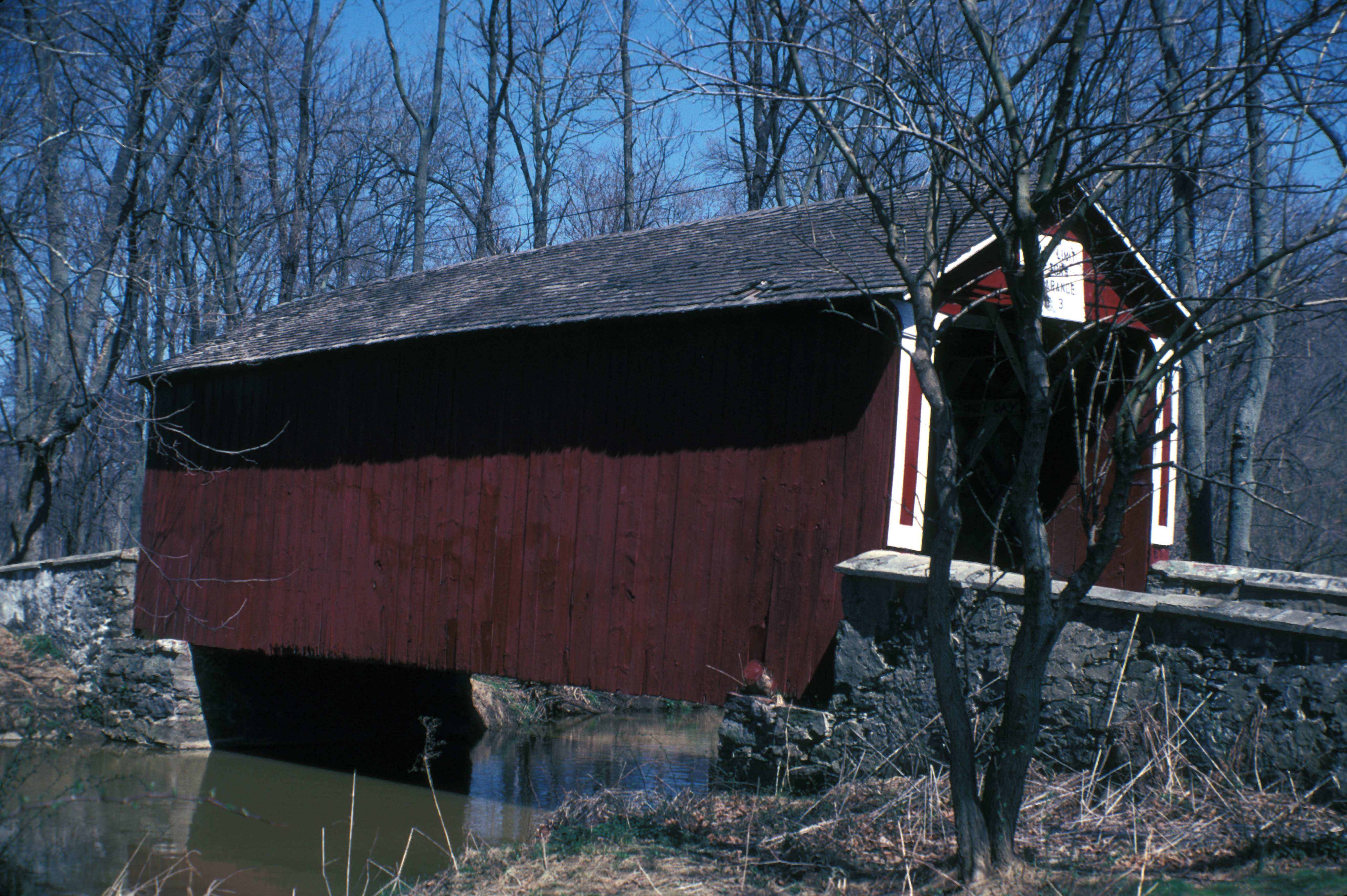 BRIDGE GOES OVER RED CLAY CREEK; 1870, 52 FOOT TOWN